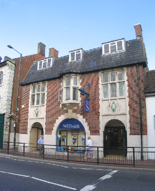 The old Lion & Lamb Public House, High Street, Brentwood. I have used this WH Smiths for more years than I can recall but when I took this photograph I noticed the two plaques above each arch, depicting a lion and a lamb and the wrought iron arm for an inn sign. A bit of internet research shows that a 'Lion & Lamb'pub was in the High Street in 1895.